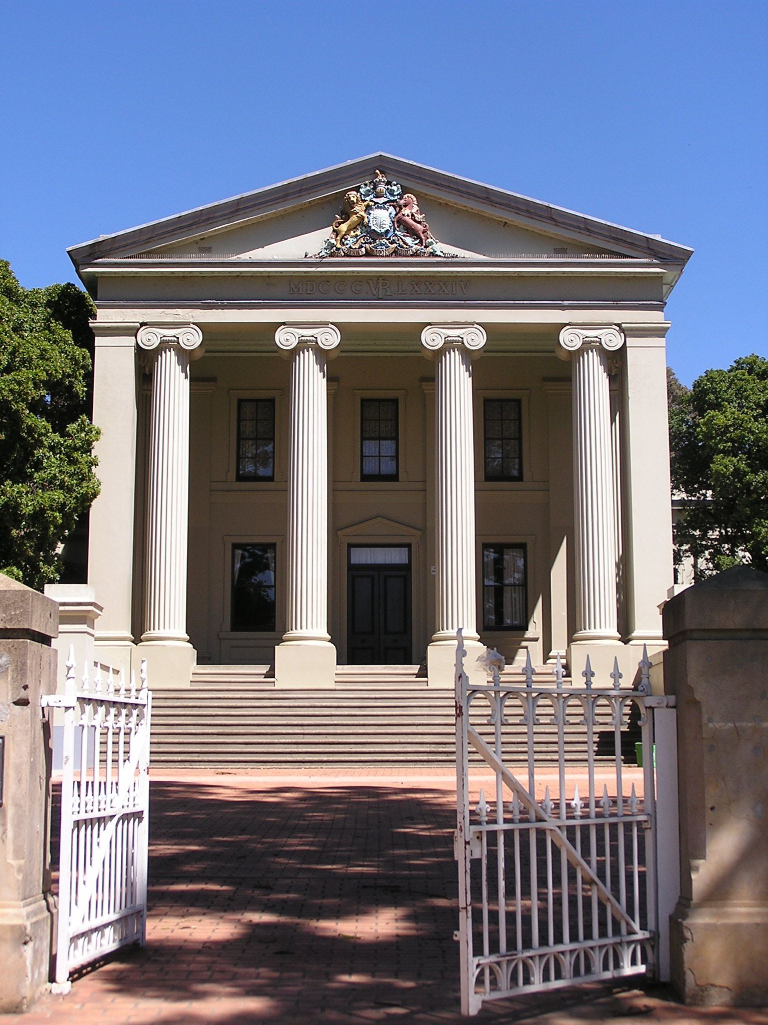 Courthouse at Young, New South Wales, , Australia. The building is now used as a school.